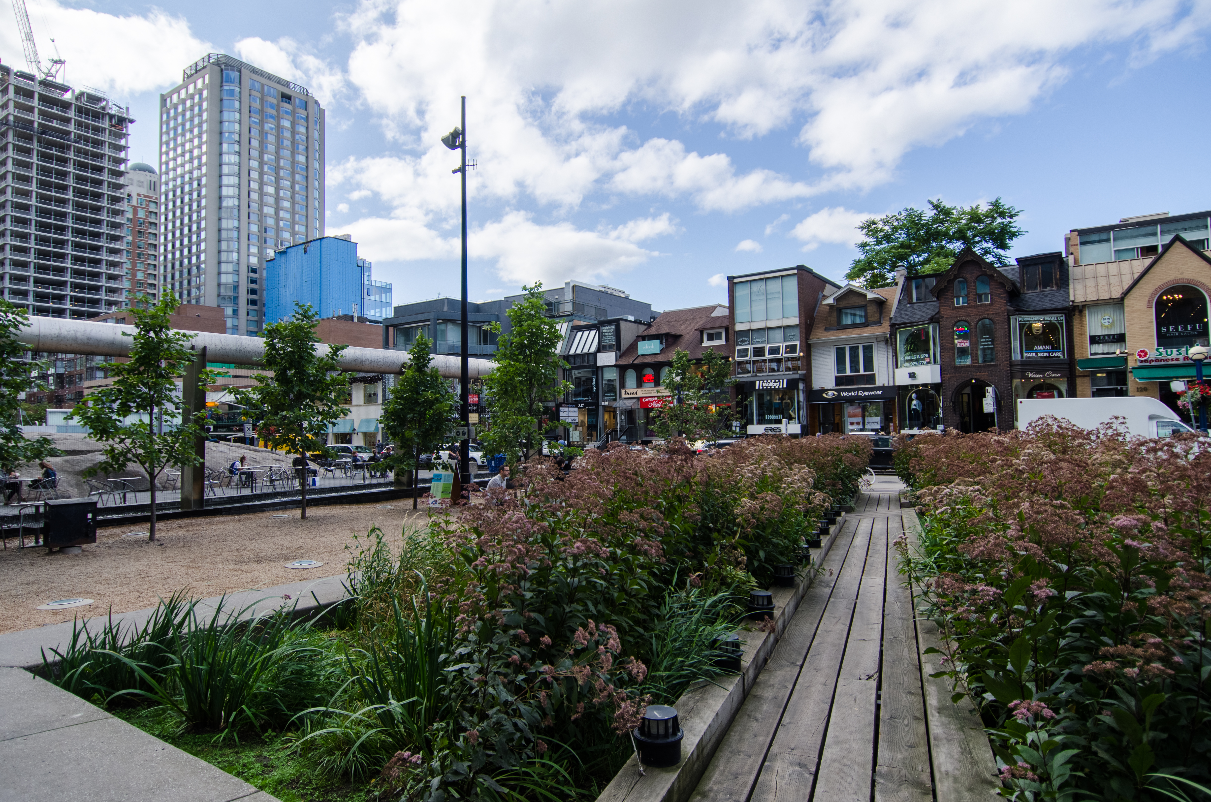 Seen in the film My Ex-Ex.